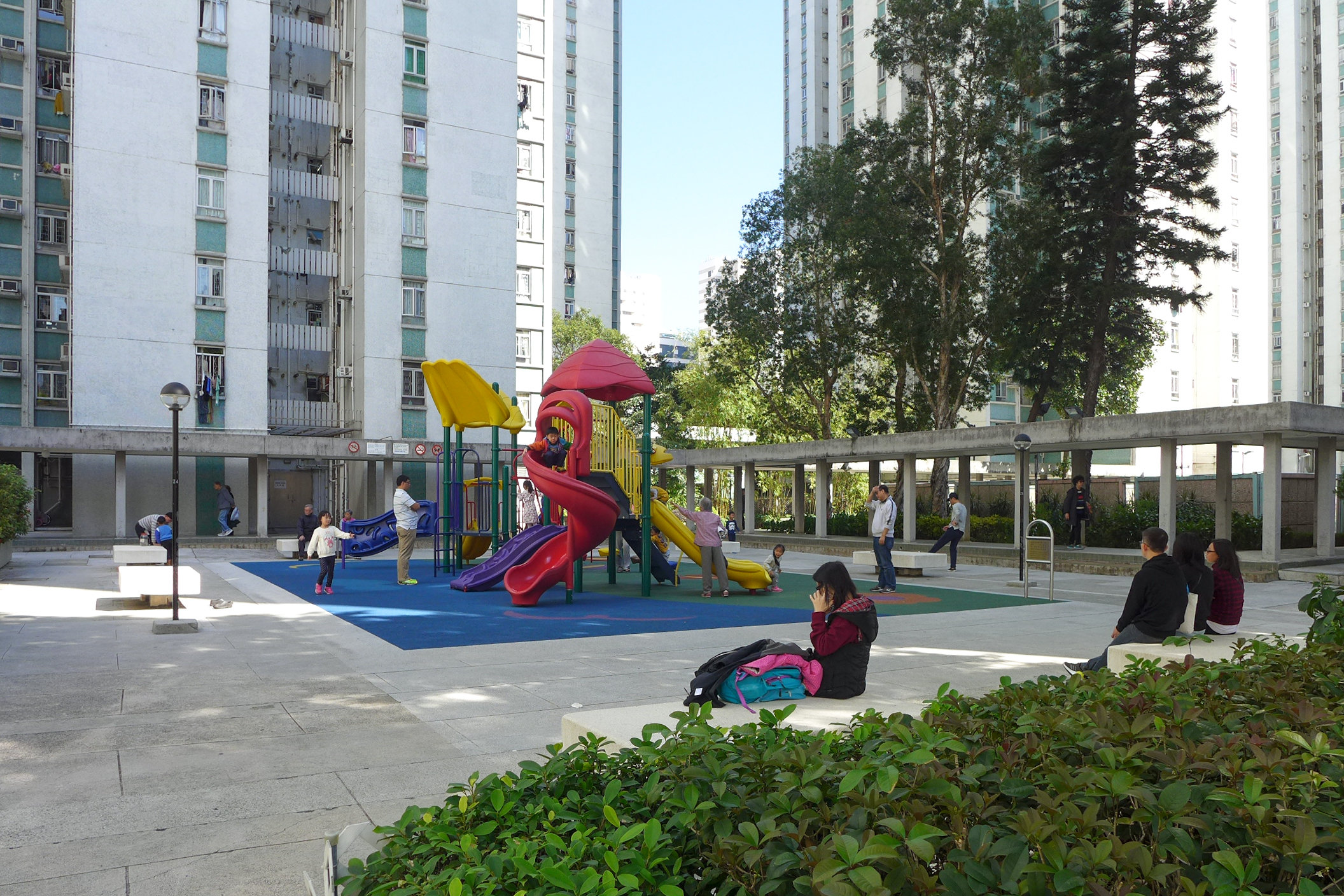 City One Shatin Children Playground